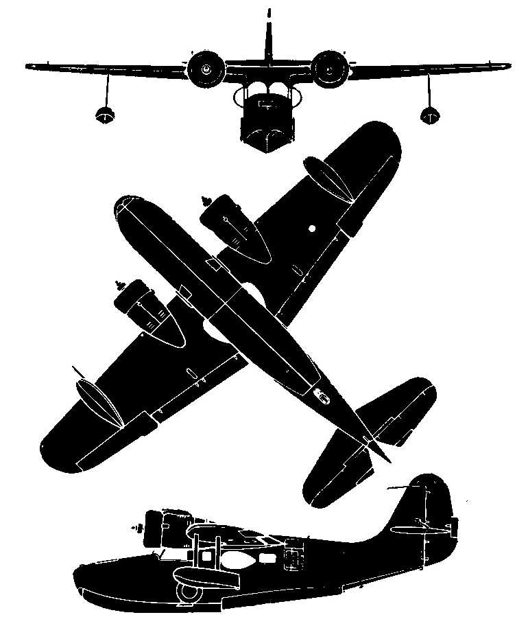 Silhouette of the Grumman JRF-5. The World's Fighting Planes (William Green and Gerald Pollinger, McDonald: London 1954) used 55 Crown Copyright silhouettes provided by the Controller of H.M. Stationery. An acknowledgements section on page 6 of the book identifies them by page. This image is one of those and since the publication date is pre-1957 is in the public domain.